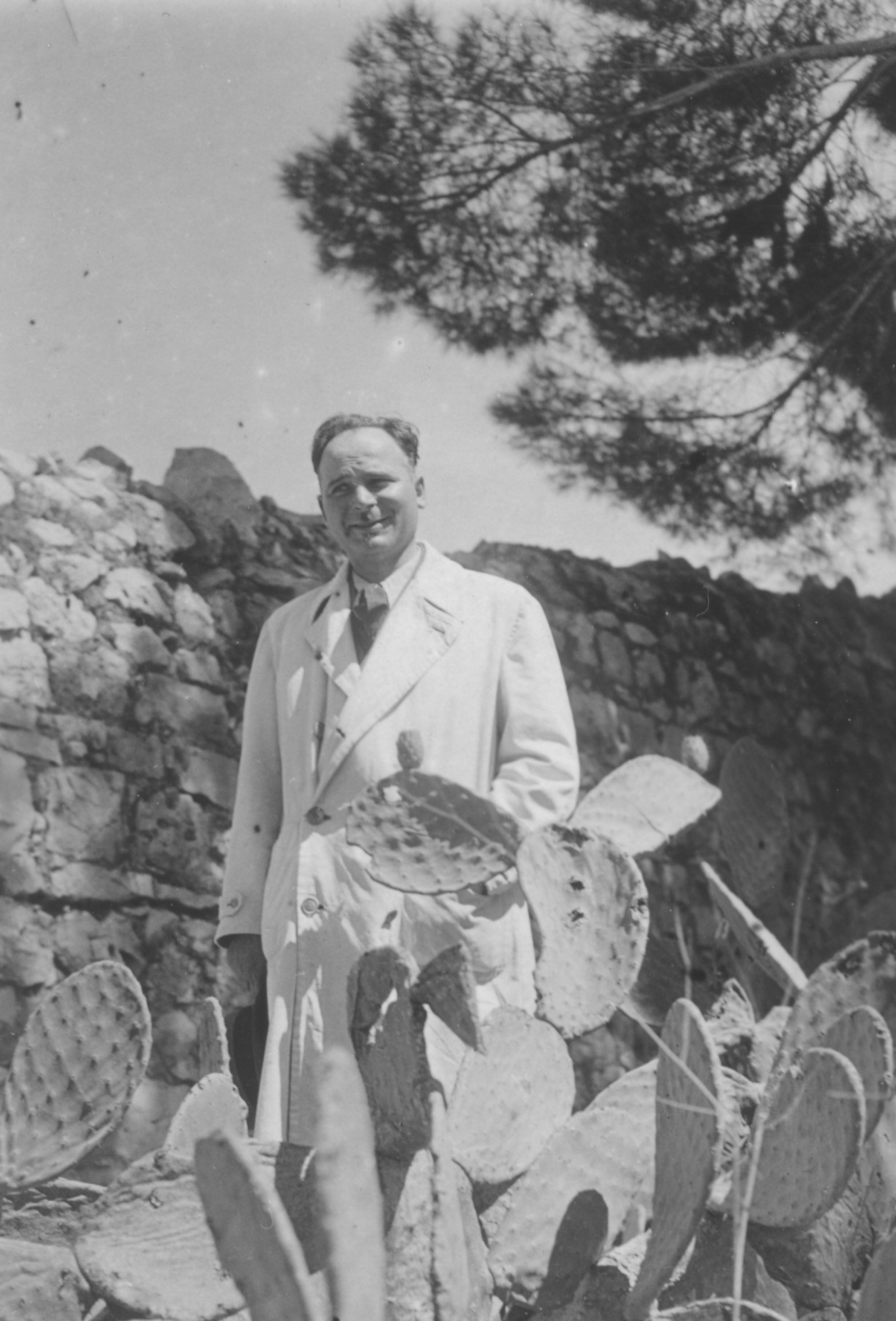 Francesco Canova prisoner in Emmaus during the World War II.